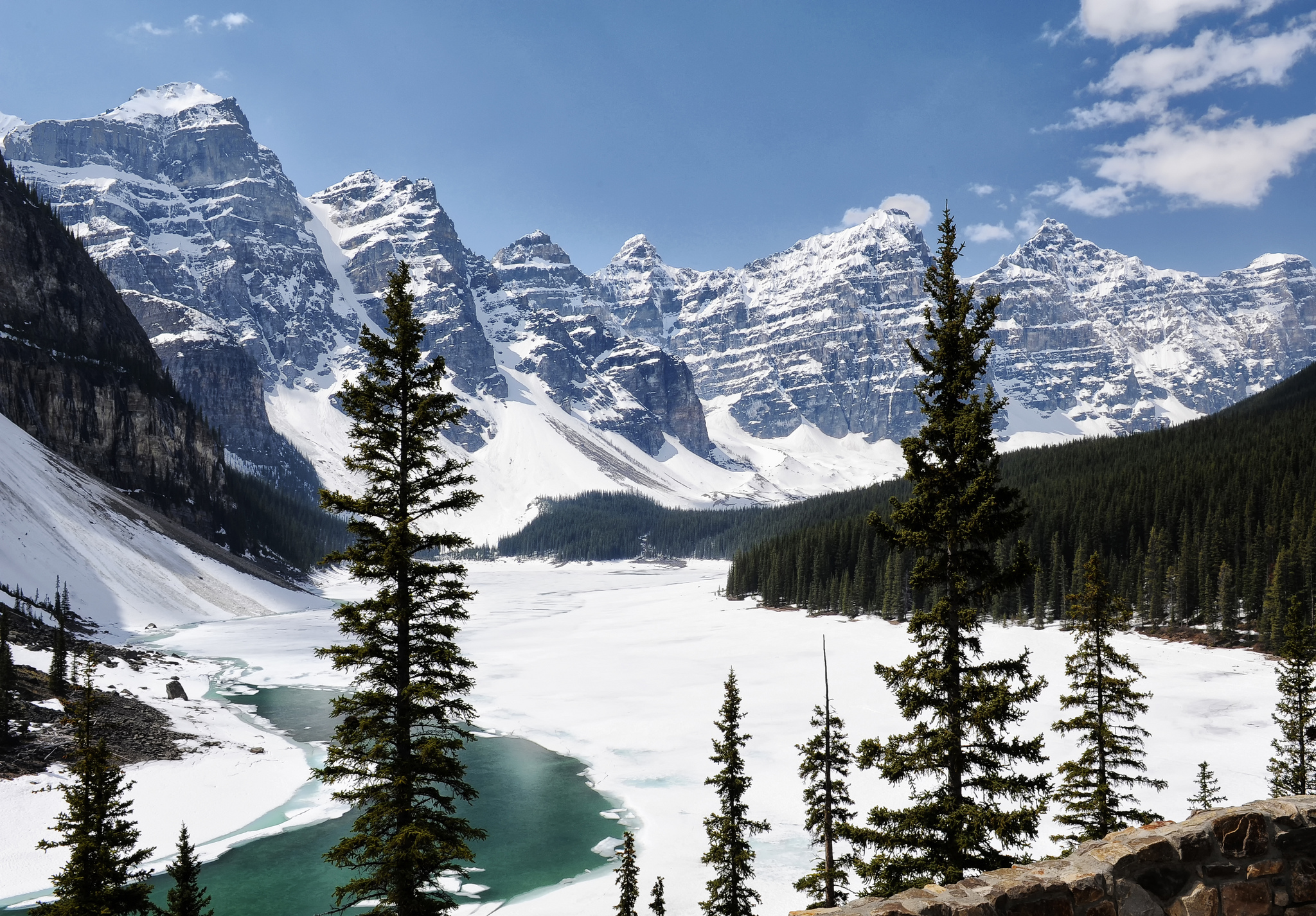 Moraine Lake, cloaked in snow on the first day the road was opened & Valley of the Ten Peaks. This photo was taken in a protected area in Canada, Wikidata item Banff National Park (Q41858)